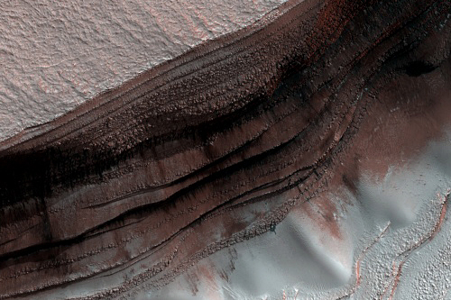 Chasma Boreale, as seen by hirise. Location is 84.4 degrees north latitude and 343.5 degrees east longitude. Image was taken by the Mars Reconnaissance Orbiter's HiRISE. The HiRISE camera was built by Ball Aerospace and Technology orporation and is operated by the University of Arizona. Image courtesy NASA/JPL/University of Arizona.